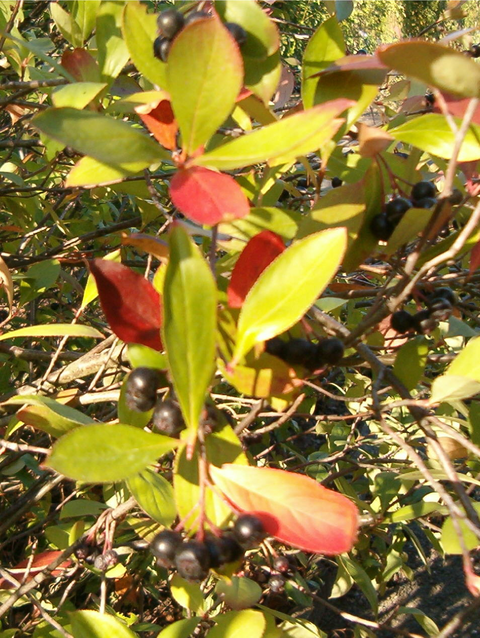 Location: Botanical Gardens Berlin, Aronia arbutifolia Habitus, Leaves and Fruits